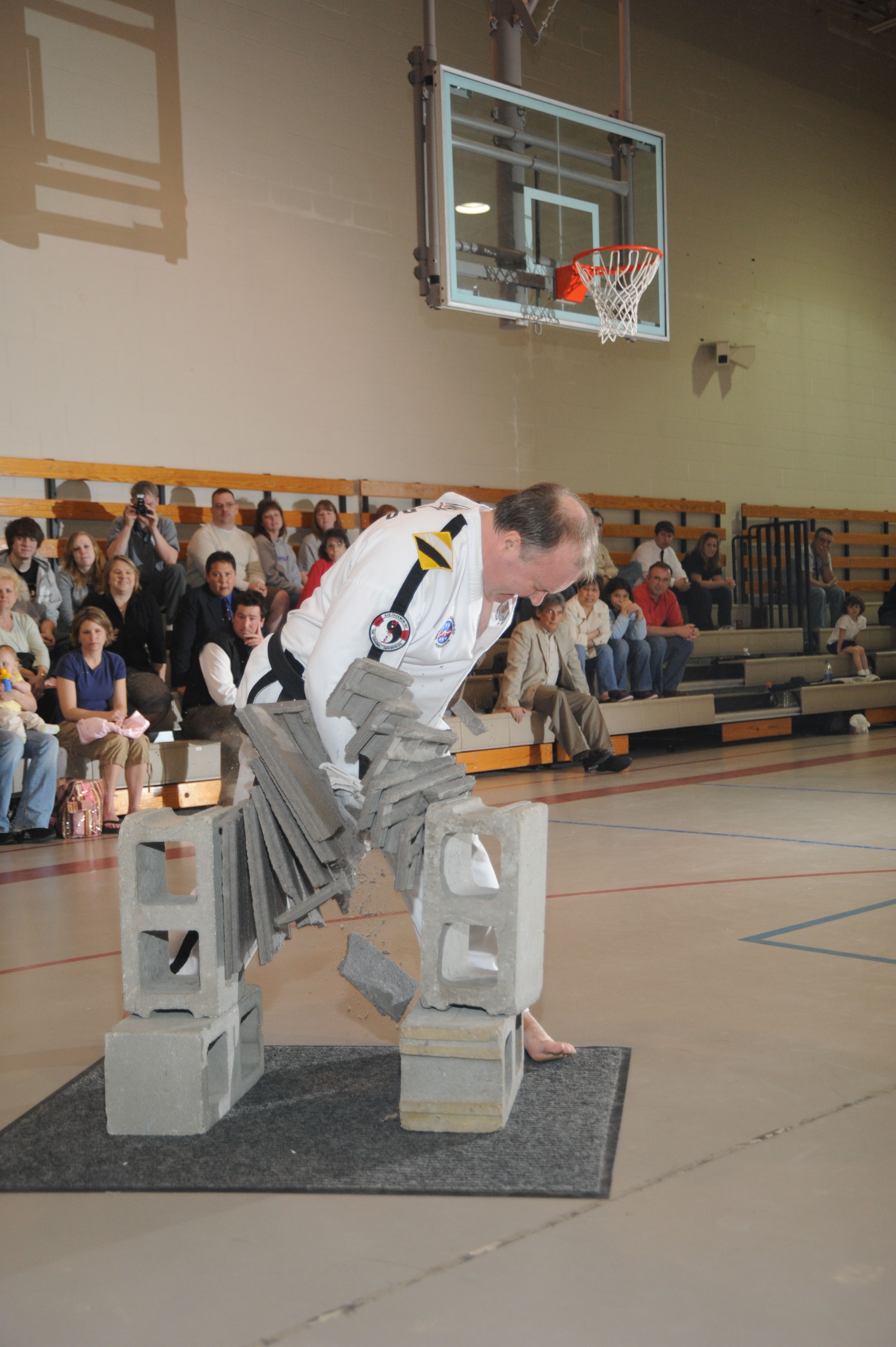 Ricky Todd, 6th degree black belt and head instructor for the U.S. TaeKwon-Do Federation's AXE TaeKwon-Do school in Bellevue, prepares to break through six cement tiles April 19 as part of the test for his 7th degree black belt master instructor status.